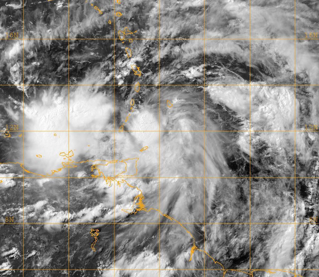 Visible satellite image of Tropical Depression Four (which would later become Hurricane Dennis upon its classification as a tropical cyclone on July 4, 2005.